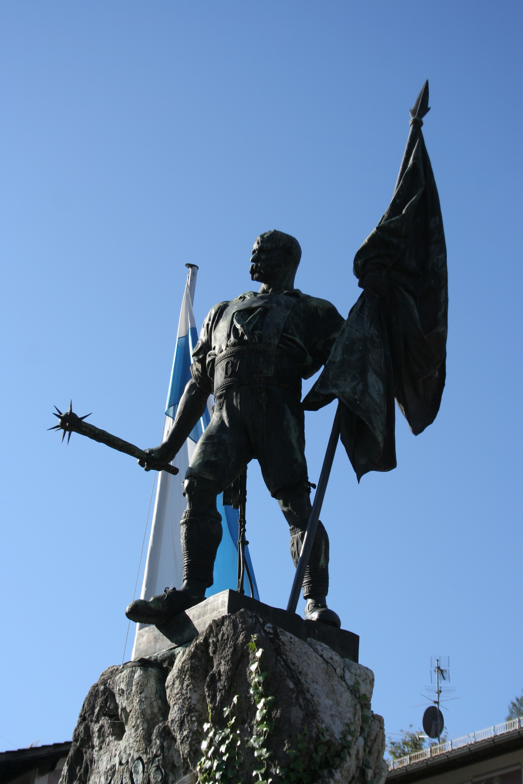 The Smith of Kochel